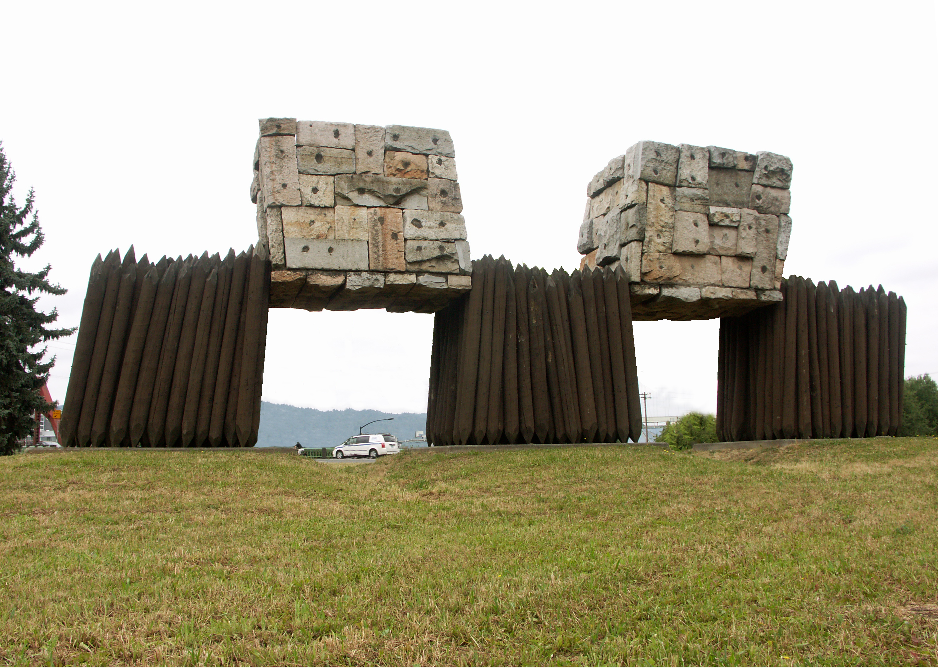 Terra Incognita, 1995 Wood, stone, earth 17 x 40 x 6 feet Portland, OR, Arena Complex; Commissioned by the City of Portland